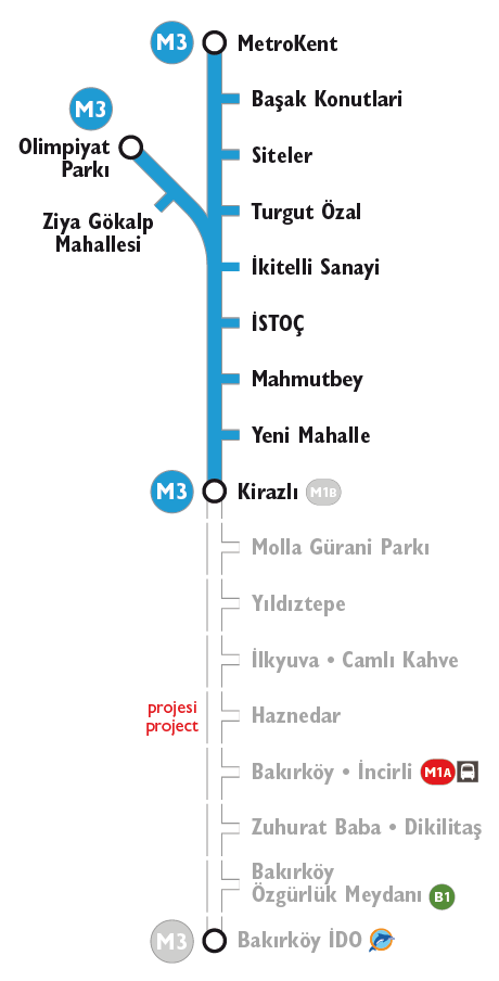 Stations of the M3 metro line in Istanbul